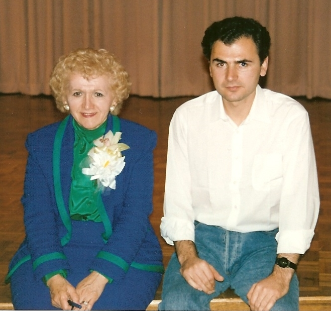 Helen Delich Bentley, former Maryland congresswoman, and Dejan Stojanovic at the New Gračanica Monastery in Third Lake, Illinois, a suburb of Chicago. Photograph taken during the Stojanovic's interview with Bentley in 1993.